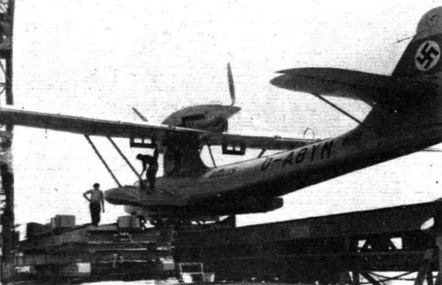 The German Lufthansa Dornier Do 18E flying boat (D-ABYM "Aeolus") on the catapult of MS Schwabenland.